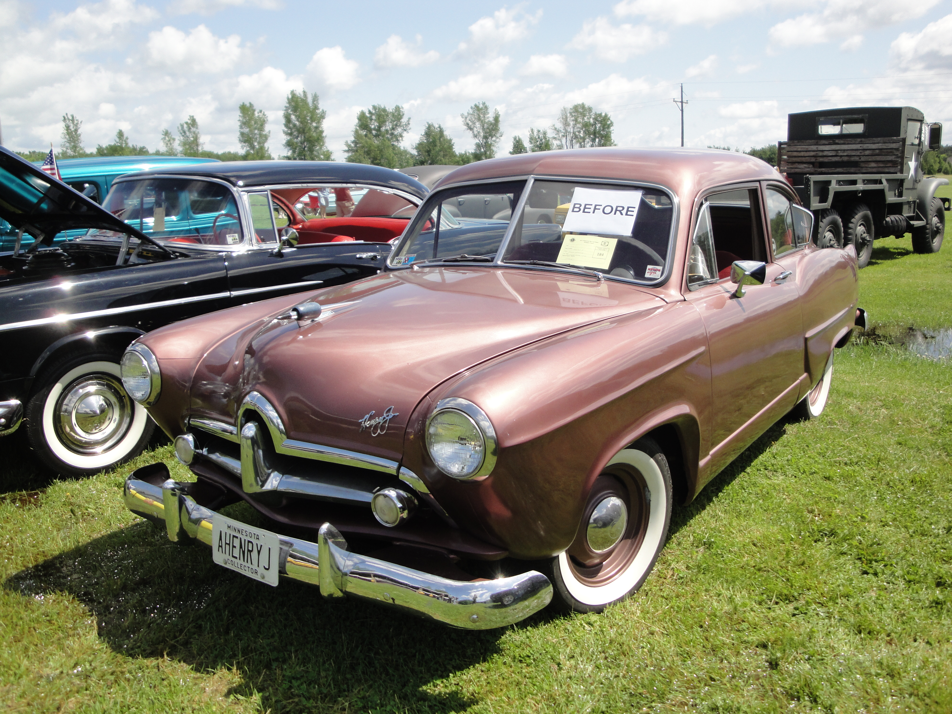 2012 Memorial Day Car Show Hosted by the North Star Chapter of the Studebaker Drivers Club